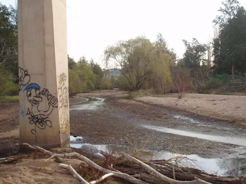 Observe the mighty torrent! Back to Ellie in a second. That so looks like a character from Worms.